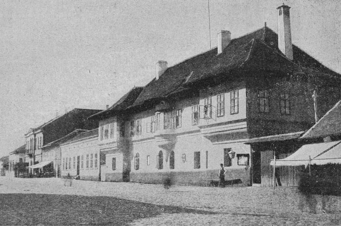 Dvor Jevrema Obrenovica